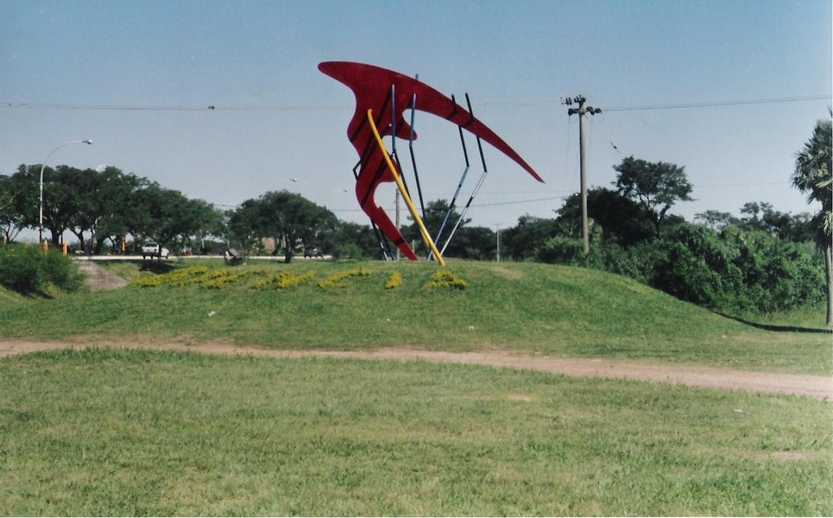 Sculpture by Av. Sarmiento in Resistencia, Chaco, one of the most important roads to get to Resistencia.